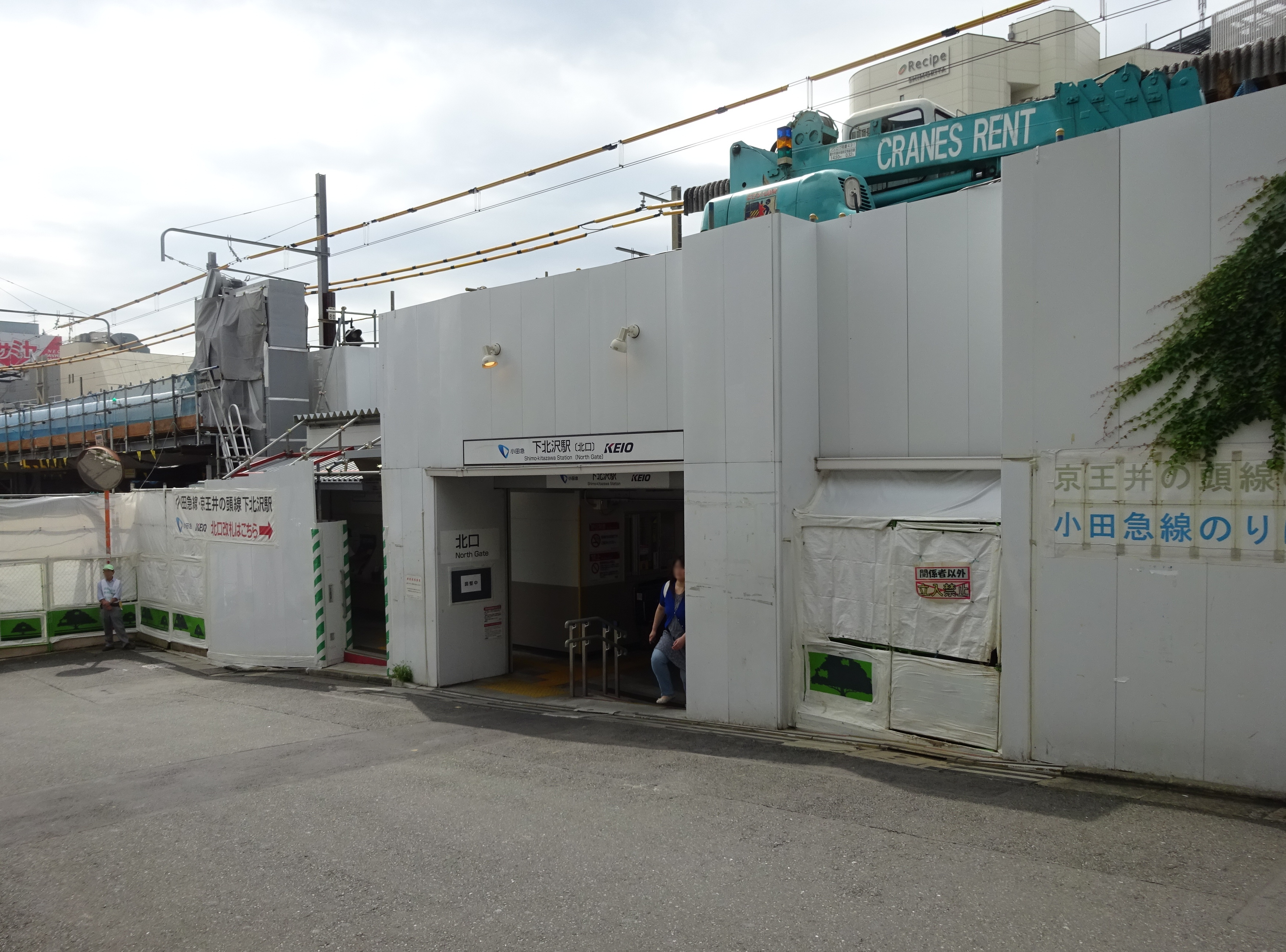 North Entrance of Shimokitazawa Station